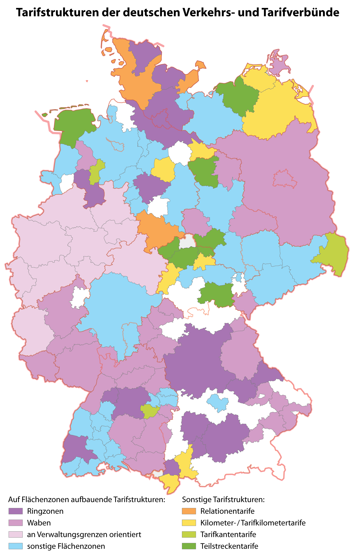 Map of different forms of public transport tariff systems used by the the German transport associations